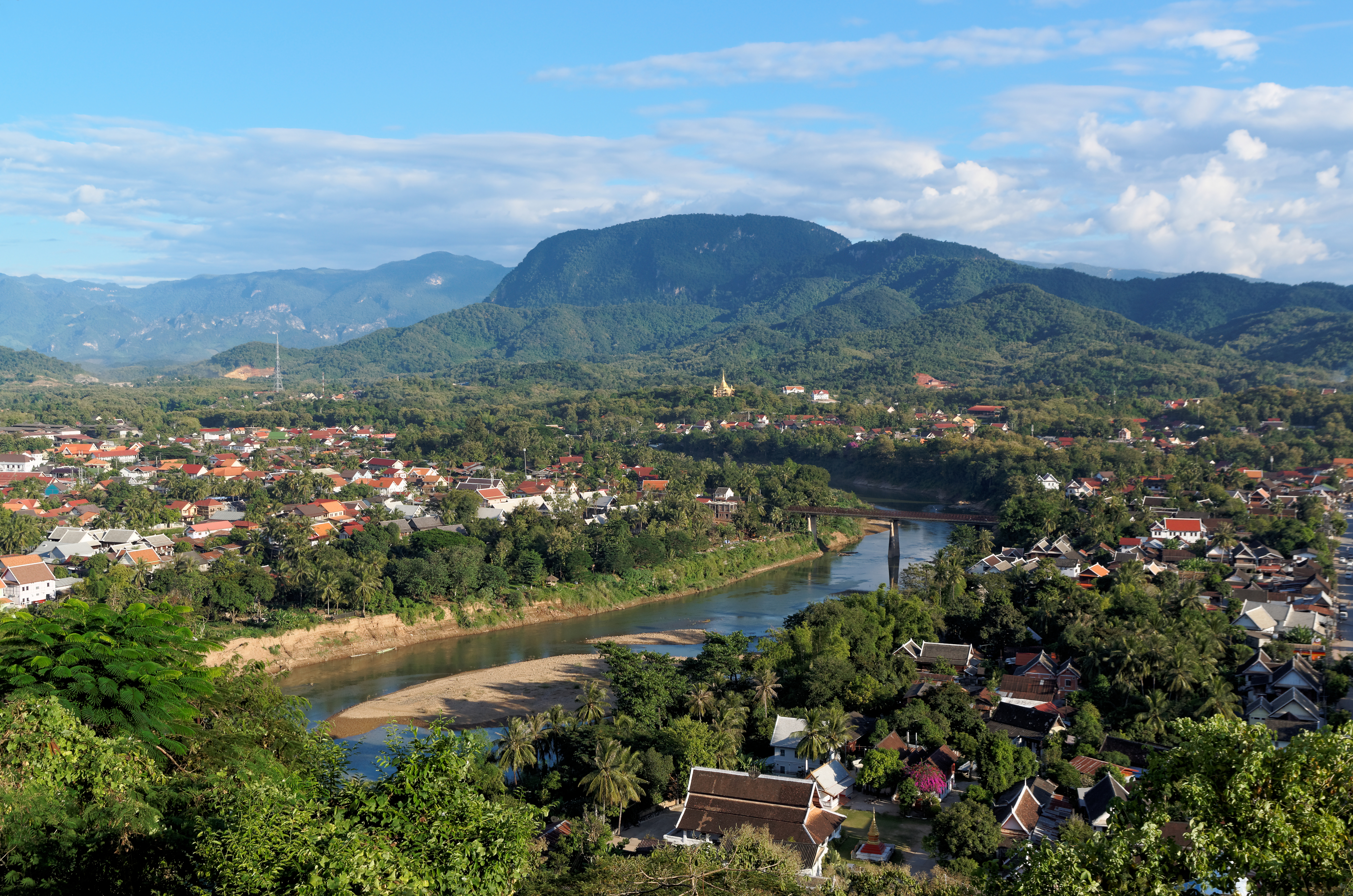 Luang Prabang - view from Mount Phu Si towards south part of the town and Nam Khan River